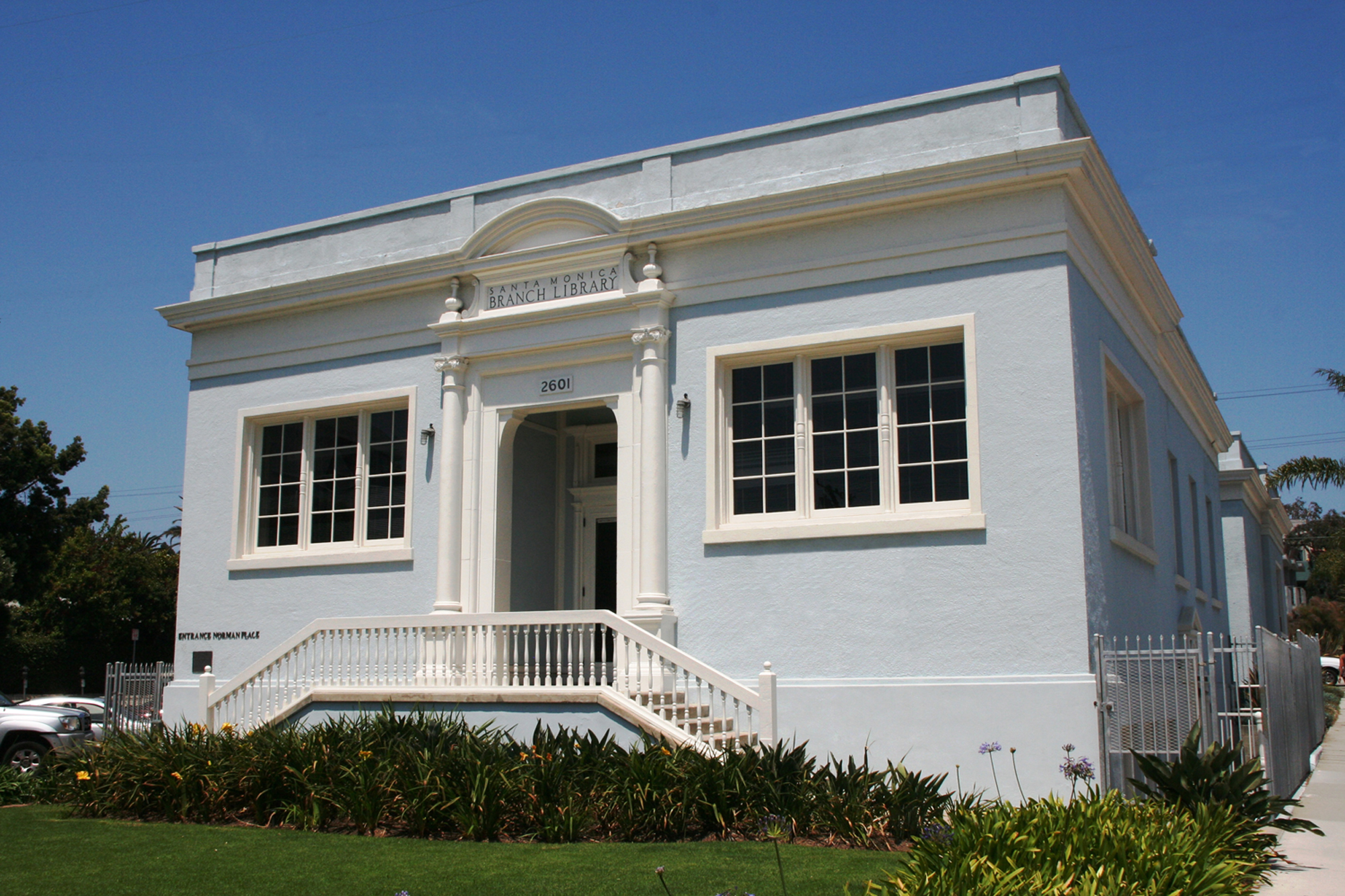 The Ocean Park Branch of the Santa Monica Public Library system as it appeared in 2011.